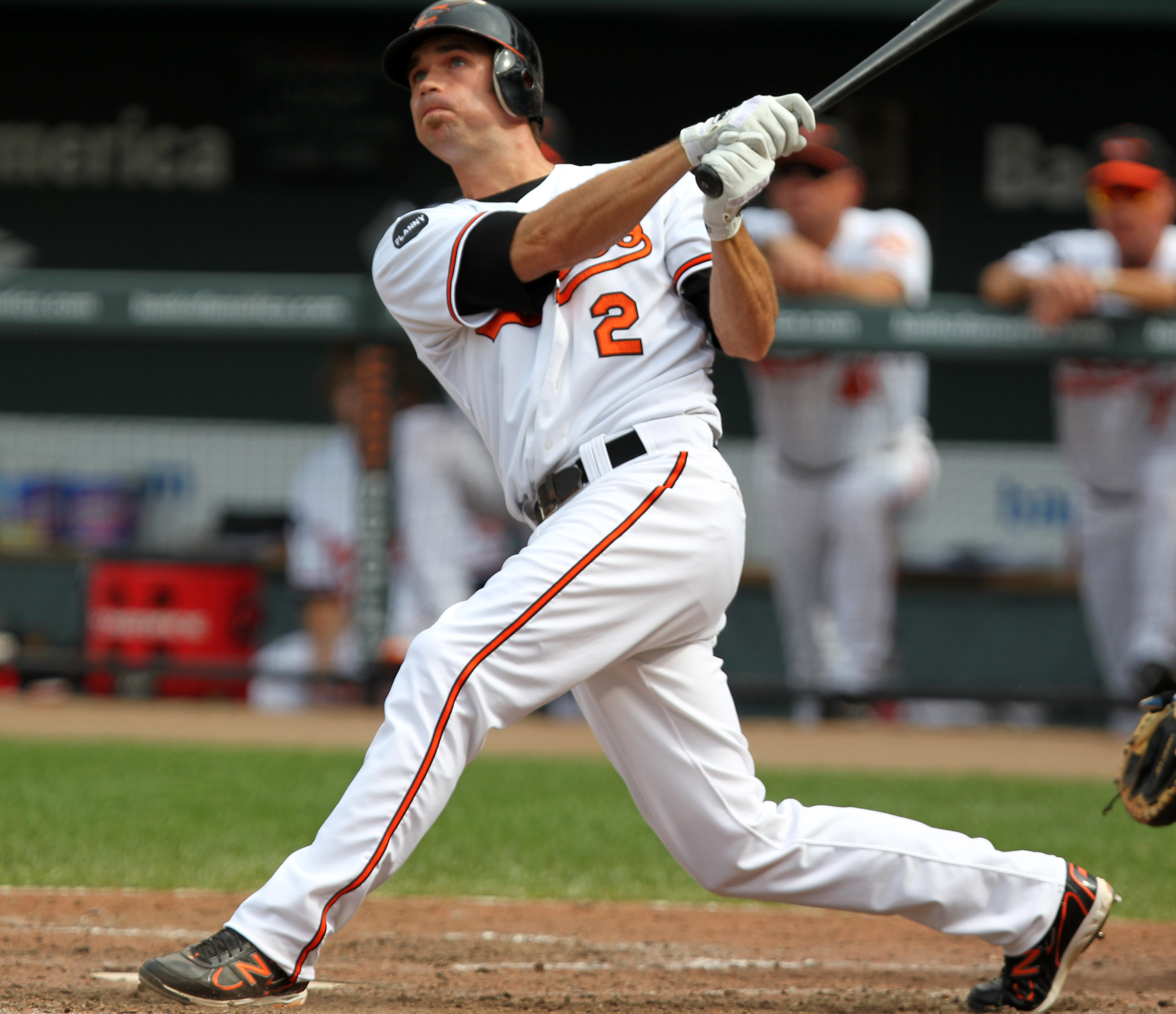 Blue Jays at Orioles September 1, 2011